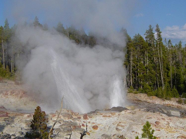 Photo taken by Daniel Mayer and released under terms of the GNU FDL.